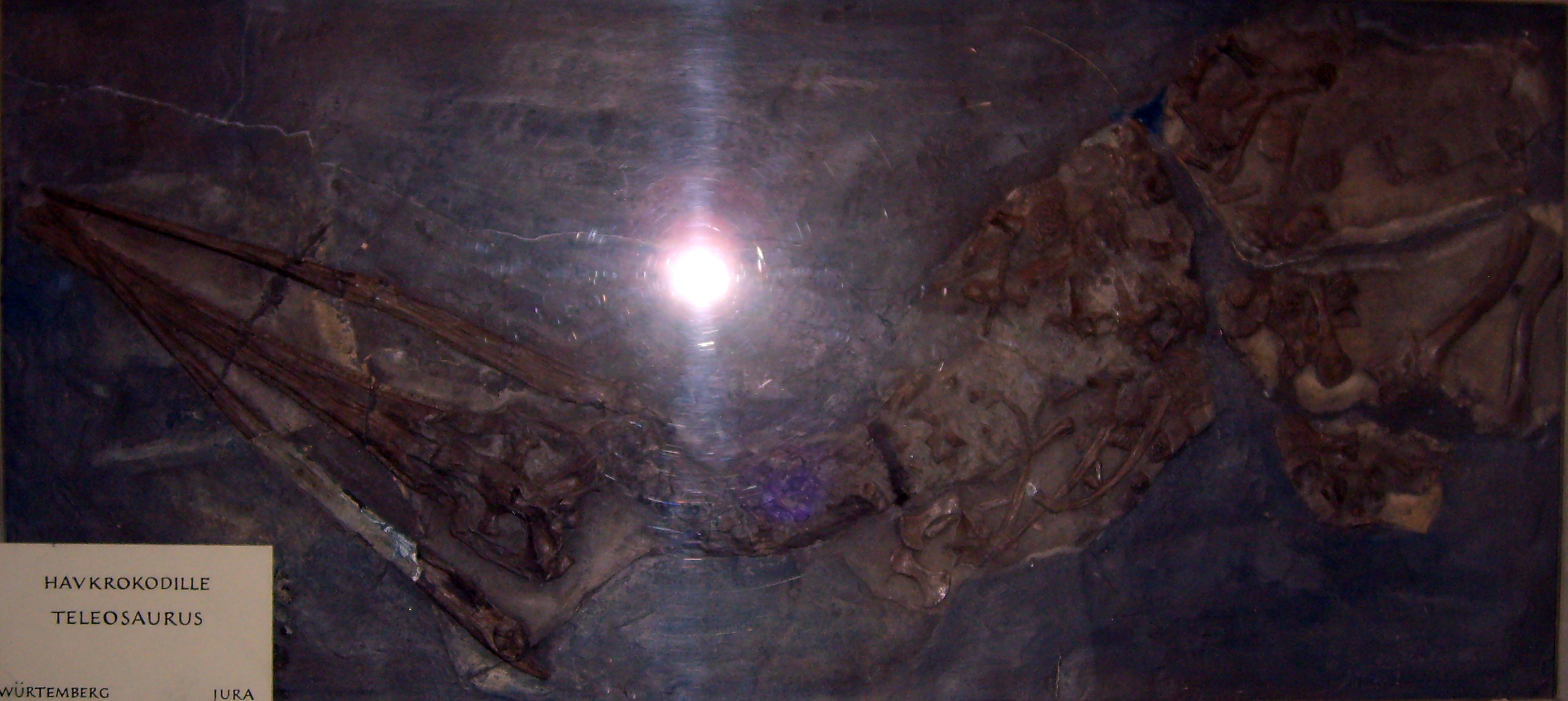 Teleosaurus fossil at the Geological Museum in Copenhagen